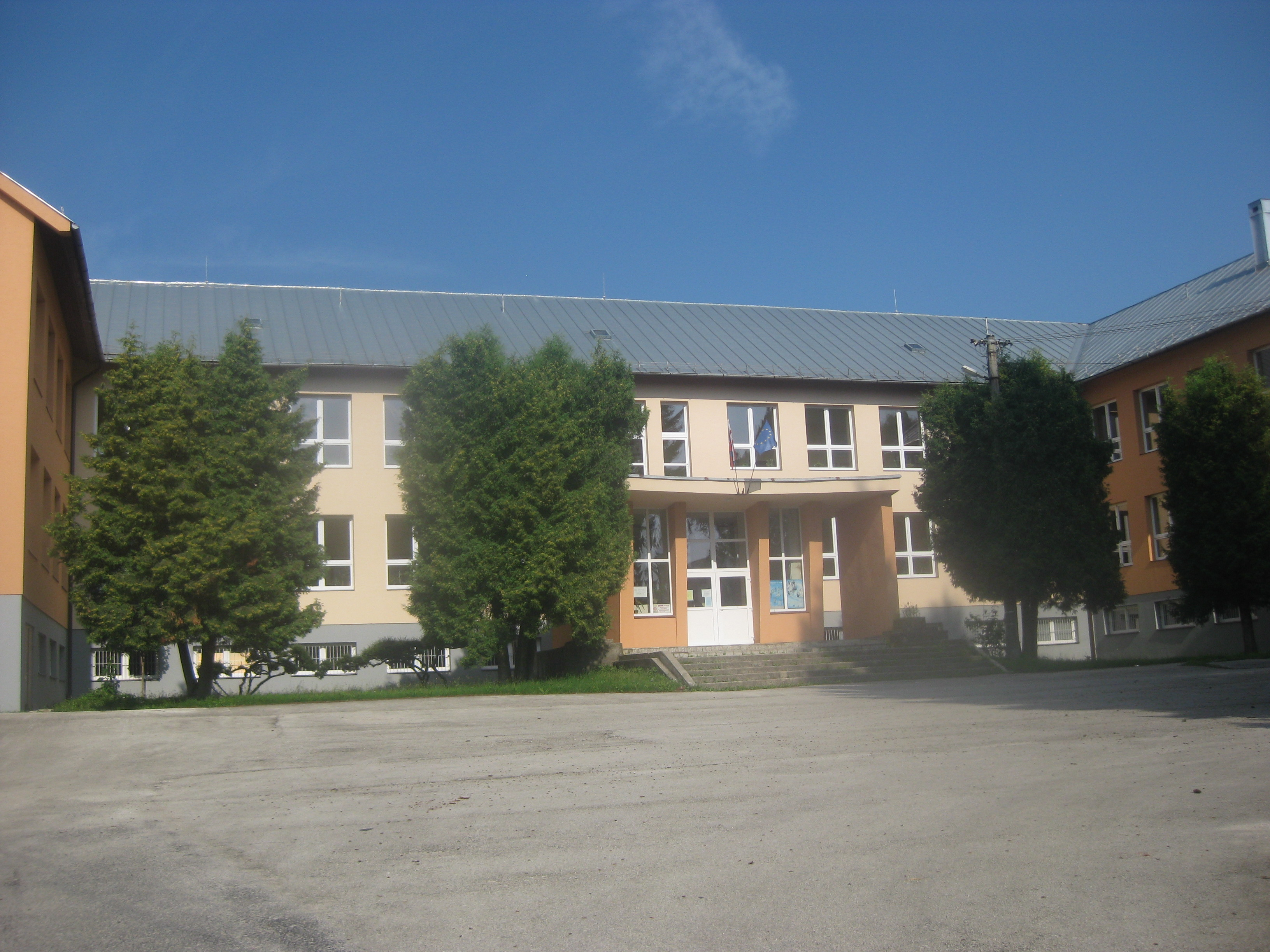 School in Visnove